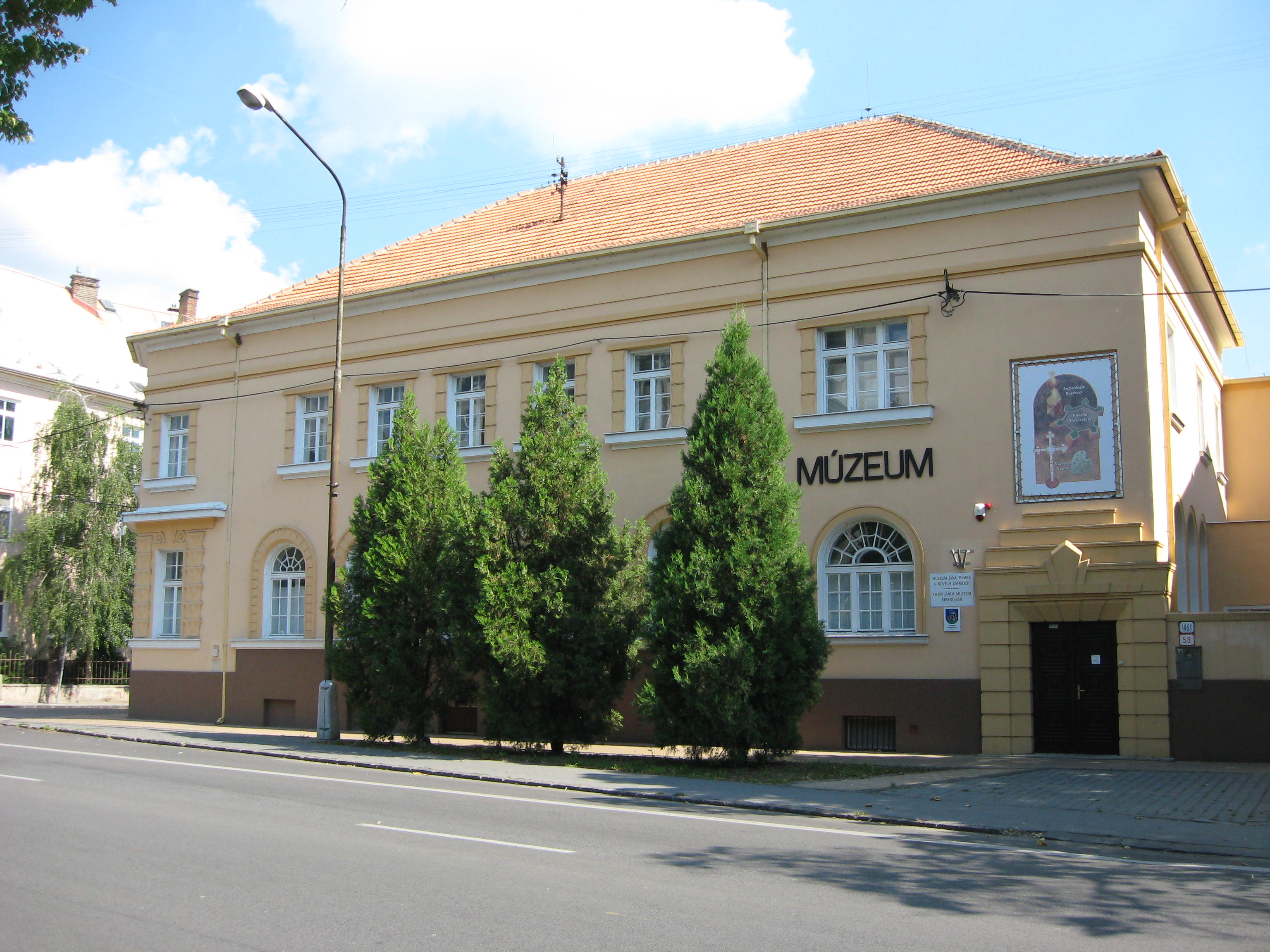 Museum of John Thain in Nové Zámky